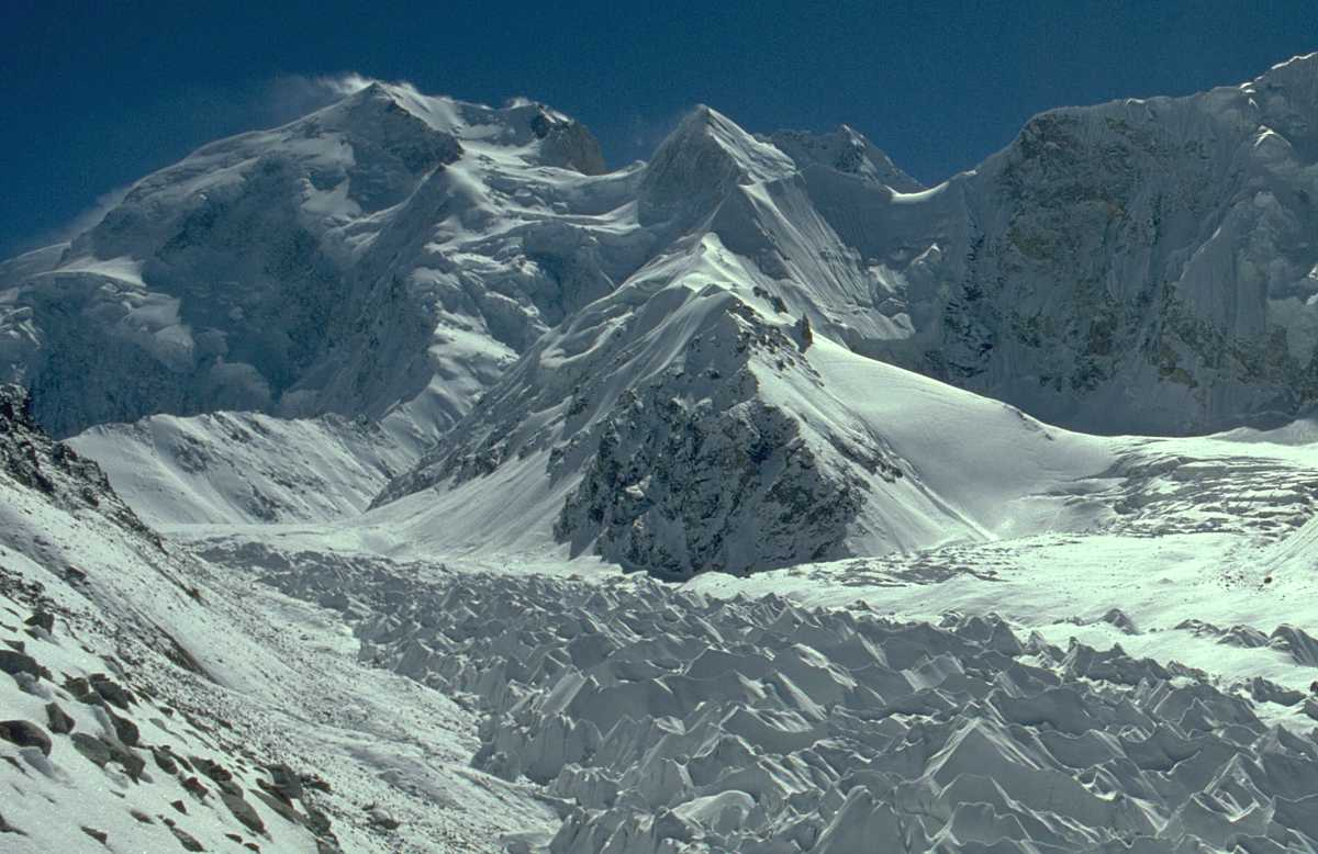 Skyang Kangri, North face